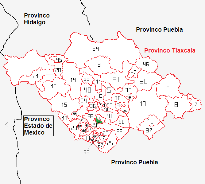 locator map Tlaxcala